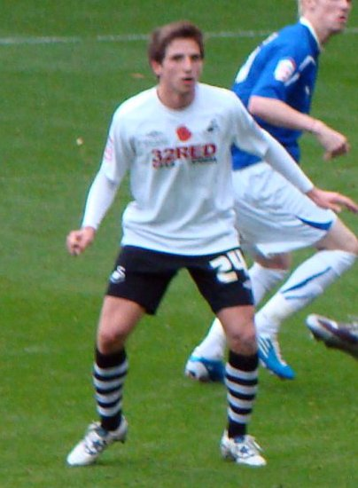 07/11/10 Cardiff V Swansea, Championship, Cardiff City Stadium, Cardiff, Wales